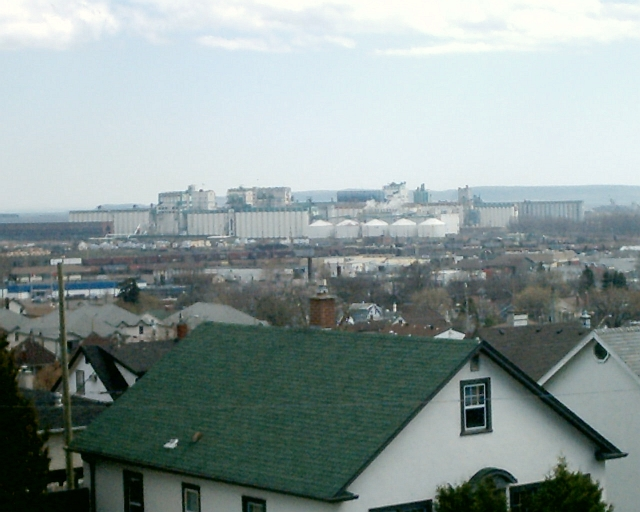 I, (Derek Silver), took this photograph on 03 May 2006. It is of grain terminals in Intercity in Thunder Bay, Ontario. I hereby release it into public domain for the masses to enjoy. :) Vidioman 11:58, 19 April 2007 (UTC)